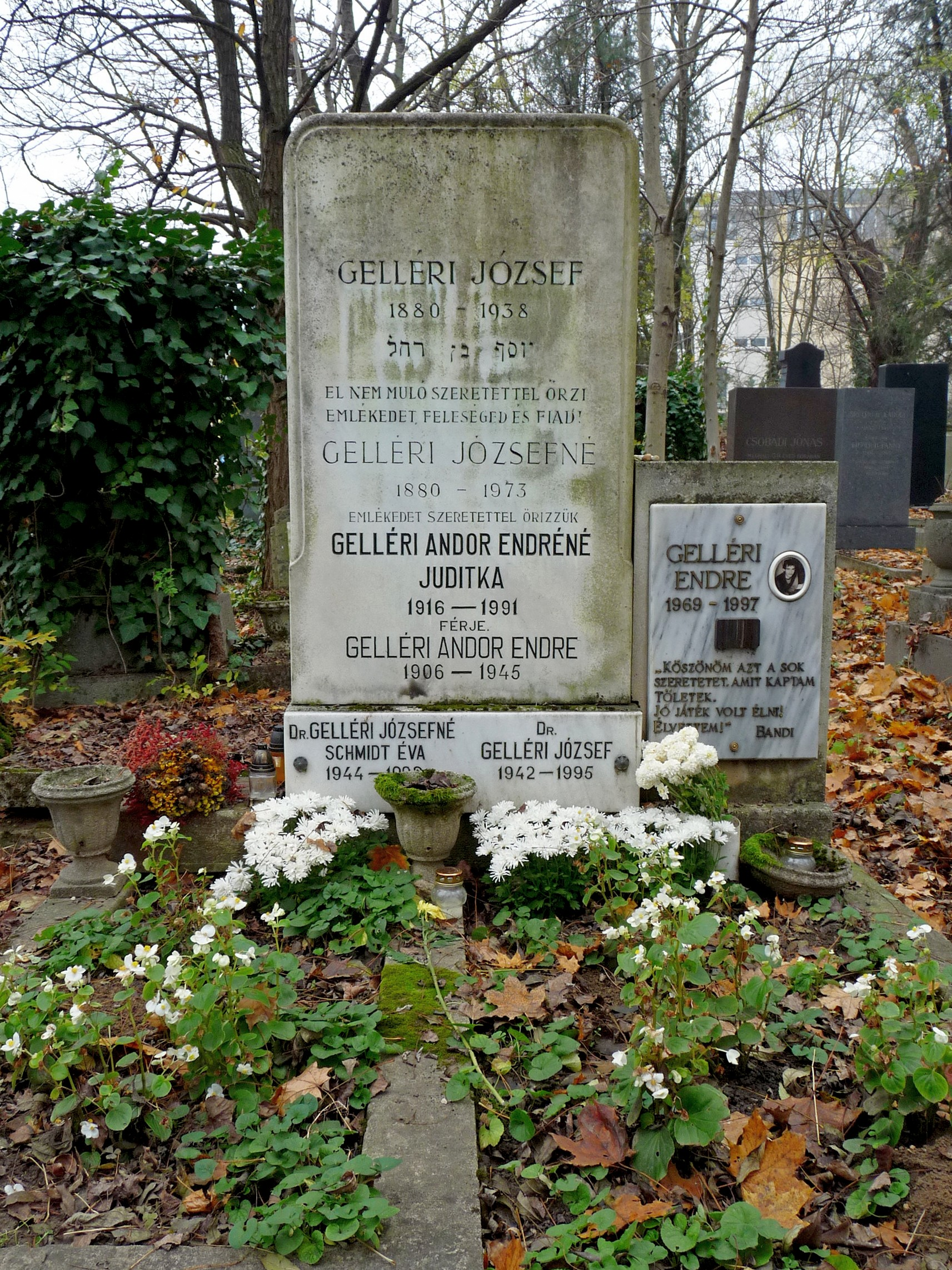 Grave of Andor Endre Gelléri (1906–1945) Hungarian novellist in the Óbuda Jewish Cemetery. (Budapest, District III, Bécsi Street Nr 369)